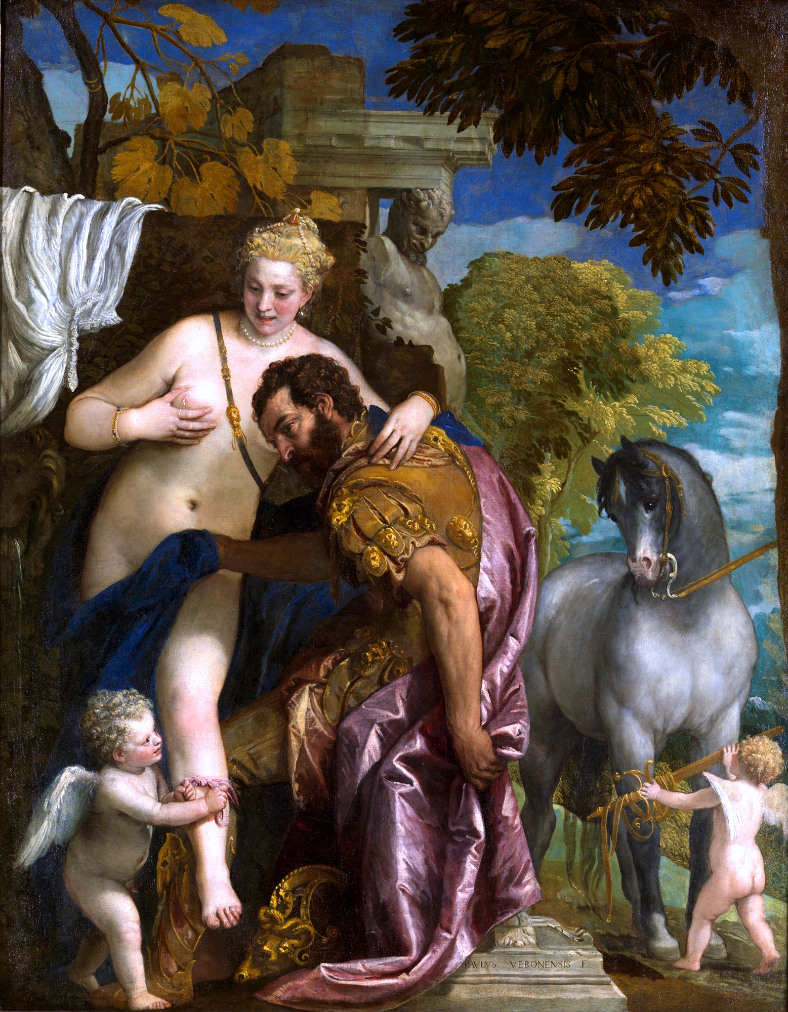 Mars and Venus United by Love